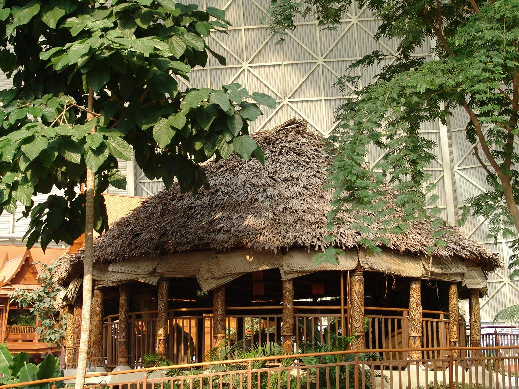 Tropical Islands Berlin '2009